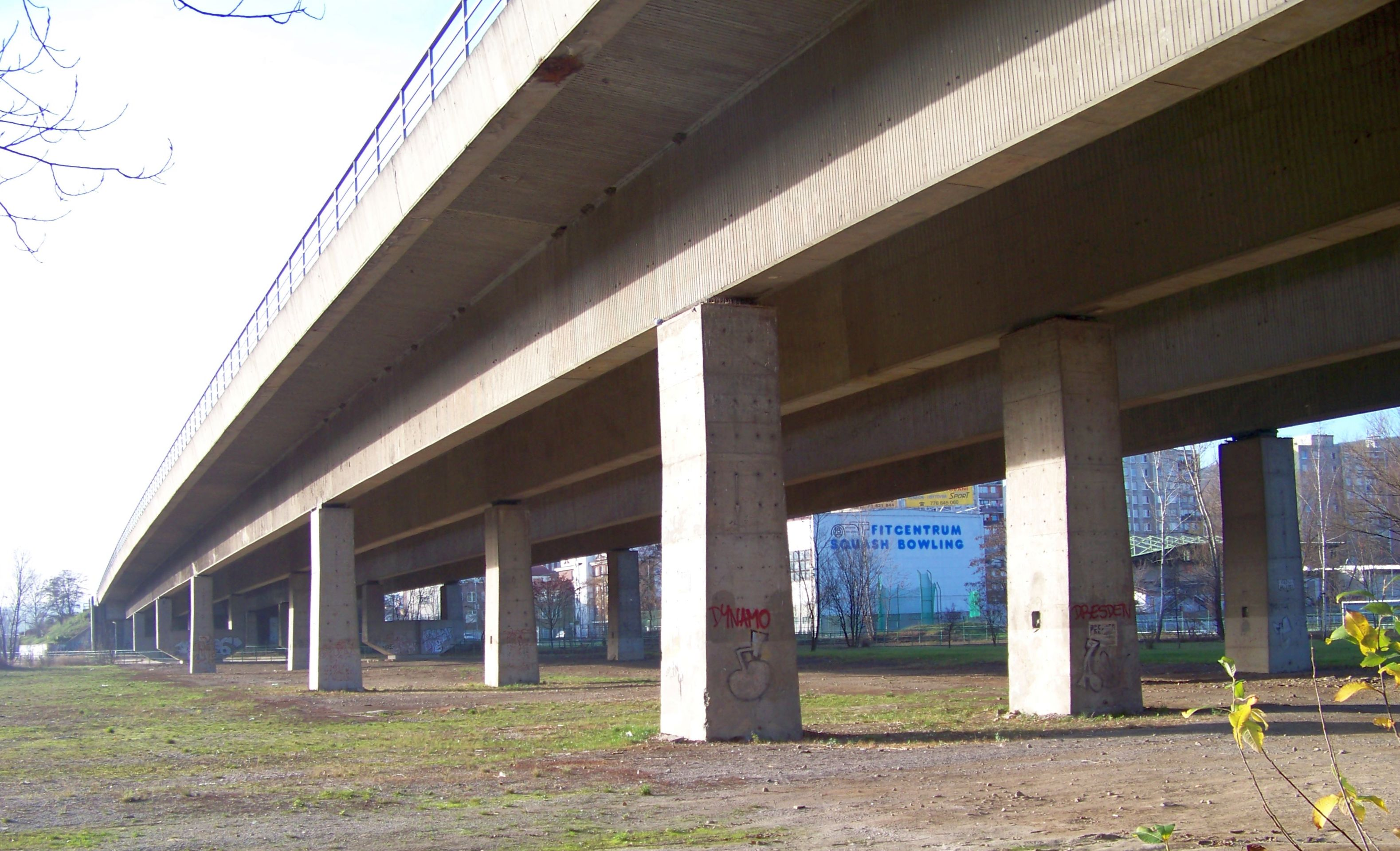 Beroun, Central Bohemian Region, the Czech Republic. Highway bridge (D5 Highway).